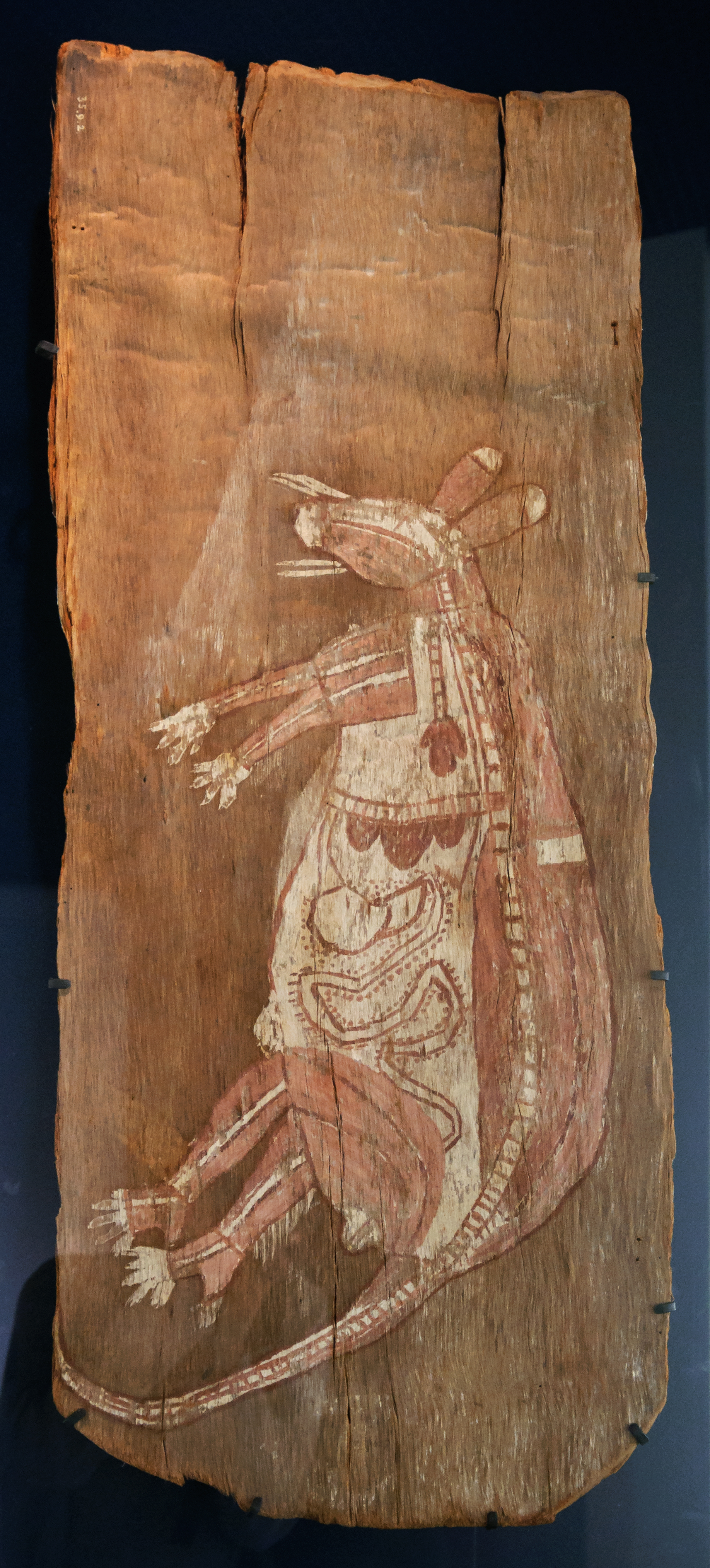 Kangaroo totemic ancestor - Bark painting - Kunwinjku. Provenance : Alligator River, Arnhem Land, Noni, Australia.